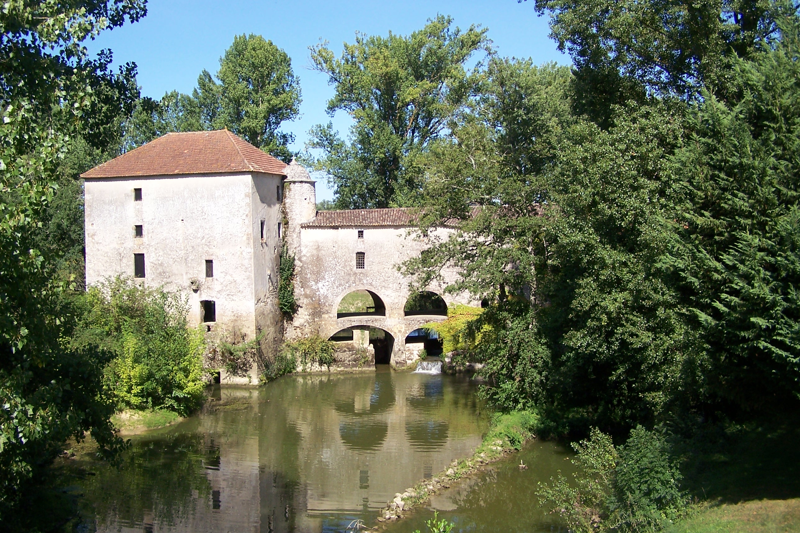 Watermill of Loubens (Gironde, France)